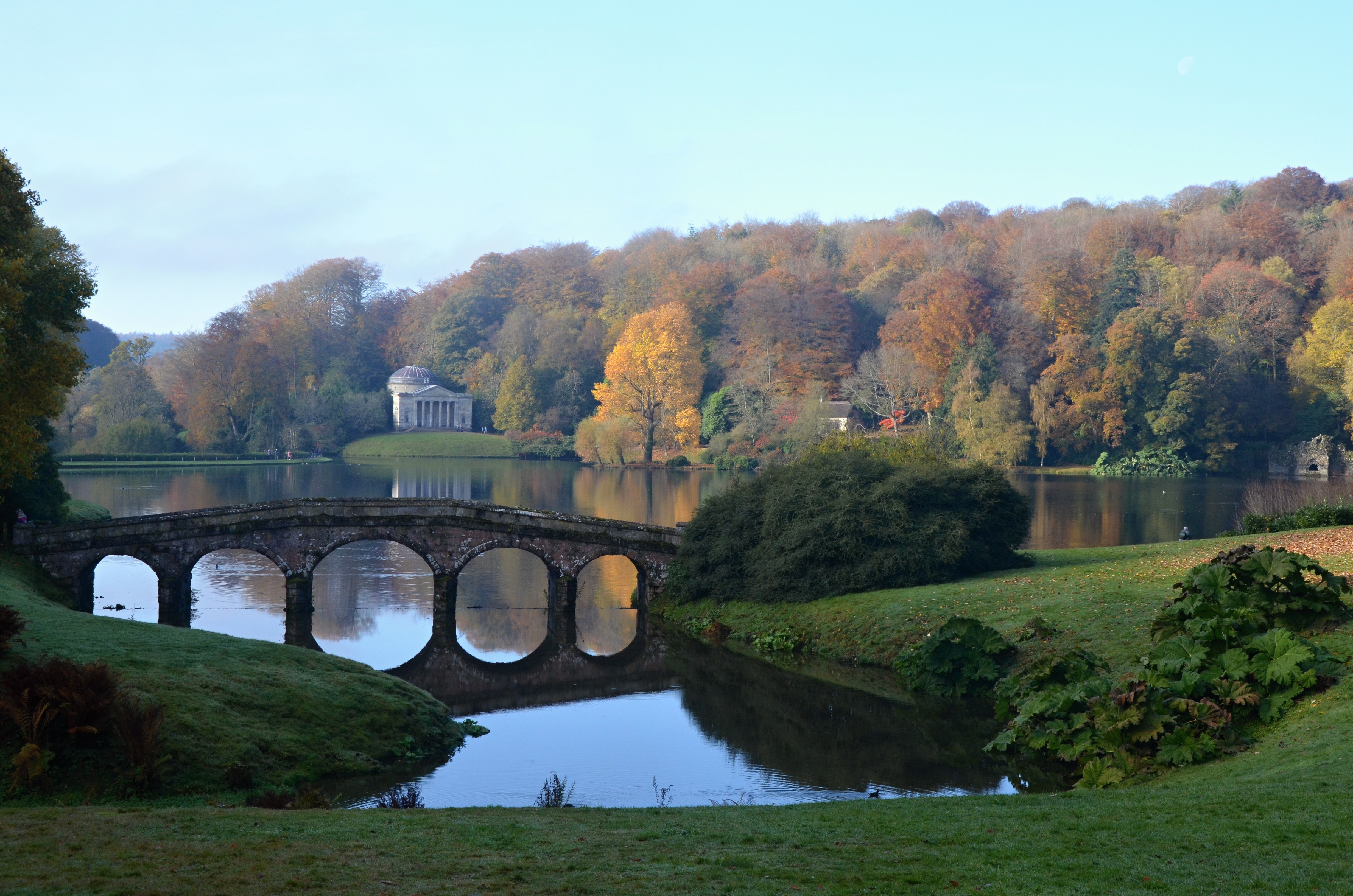 The Palladian Bridge Wikidata has entry Q17529437 with data related to this item.